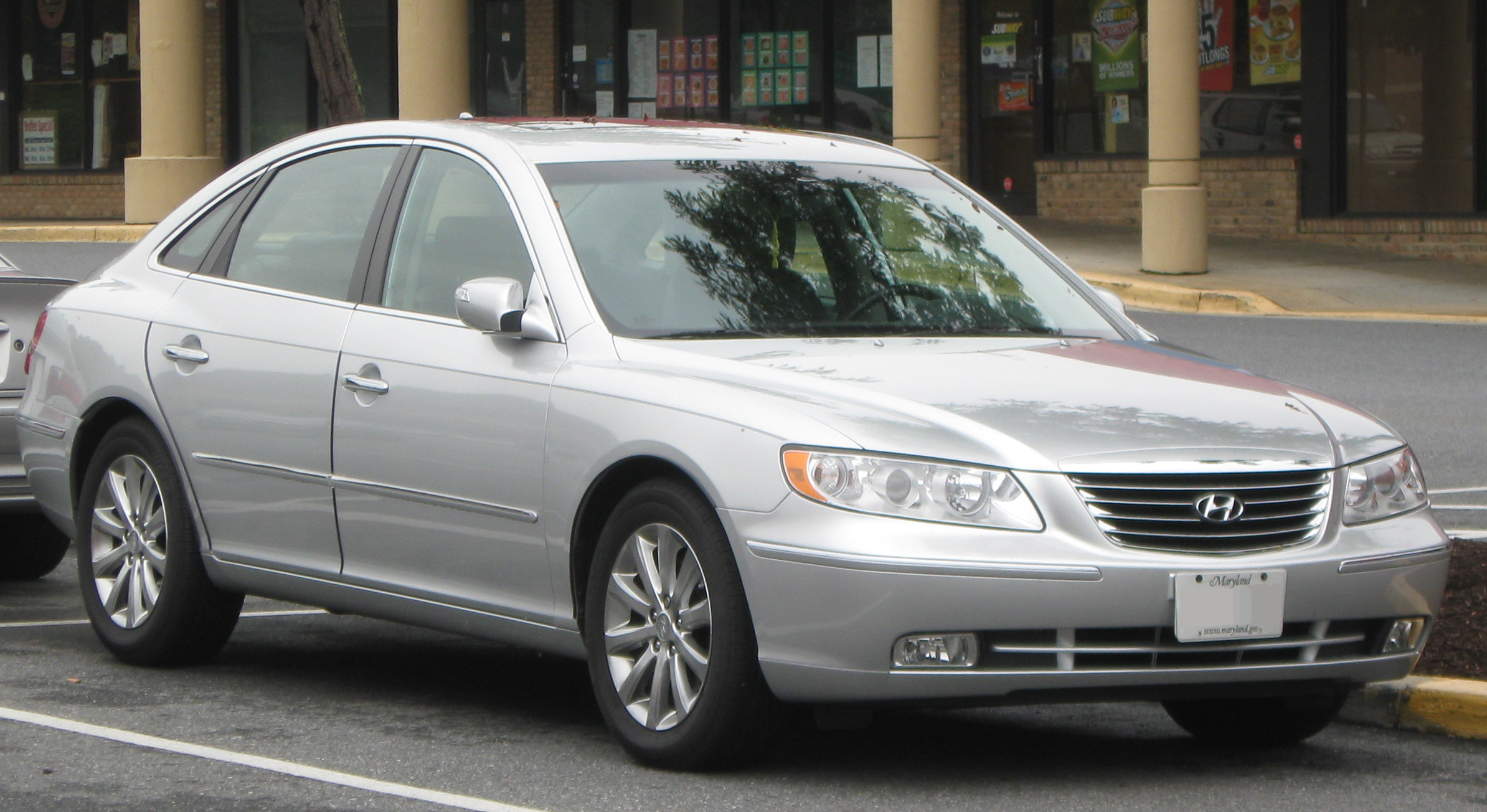 2009 Hyundai Azera photographed in Laurel, Maryland, USA.